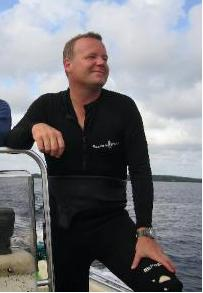 Lee R. Berger